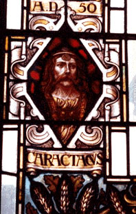 Stained glass window in Colchester town hall depicting Catuvellauni chief Caratacus.